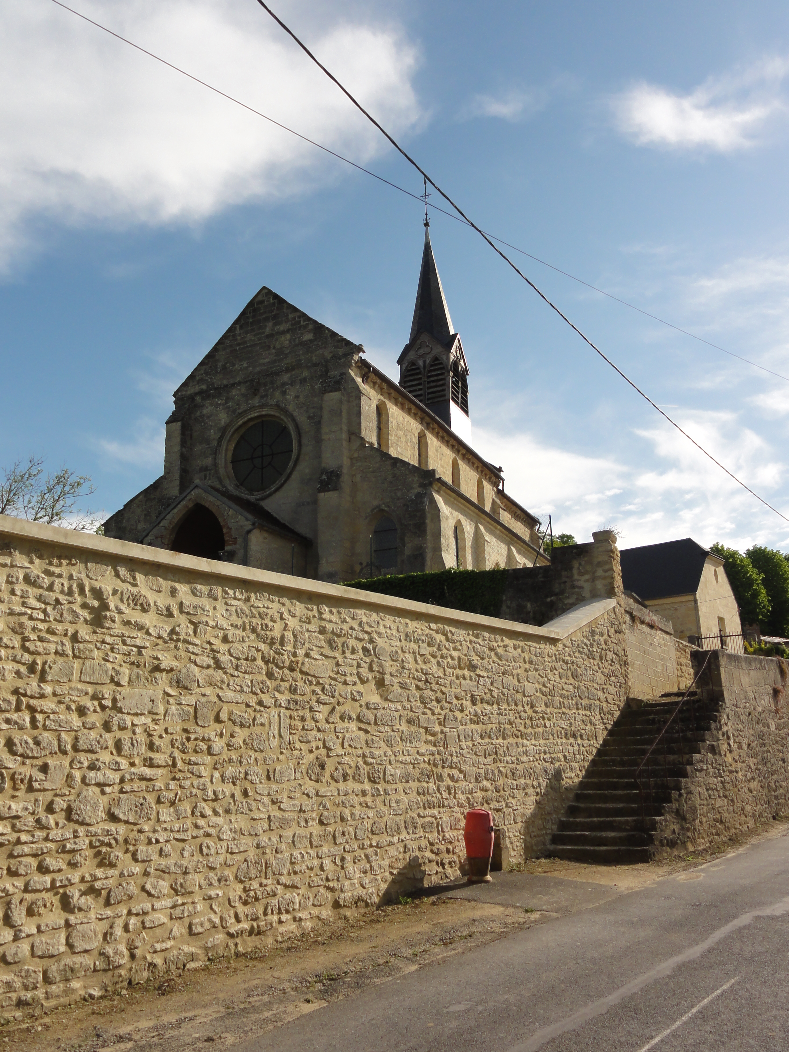 Chérêt (Aisne) église Saint-Nicolas